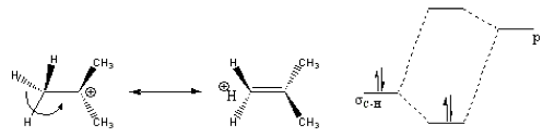 fdsfad